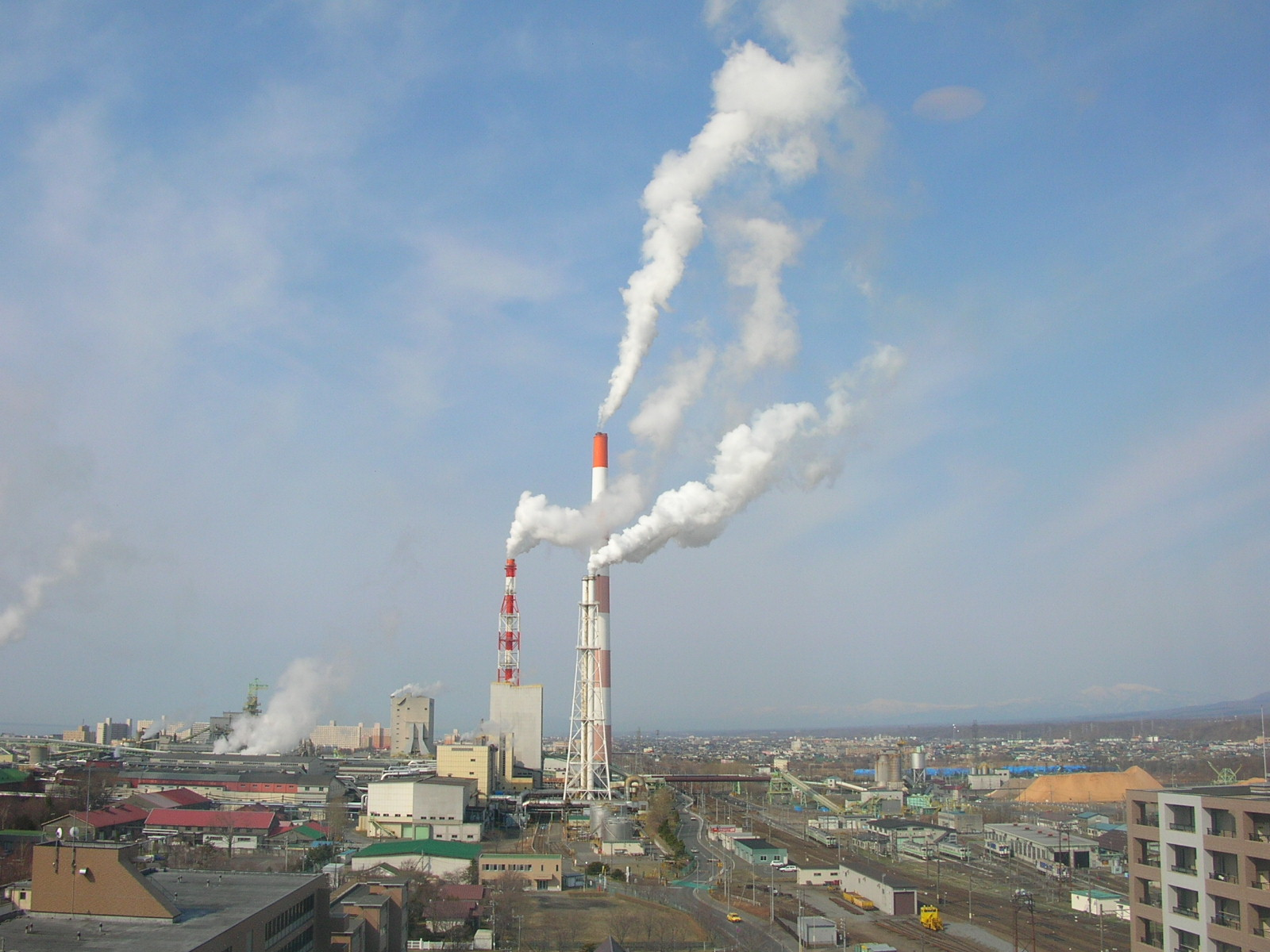 Oji Paper Tomakomai Factory in Hokkaido, Japan